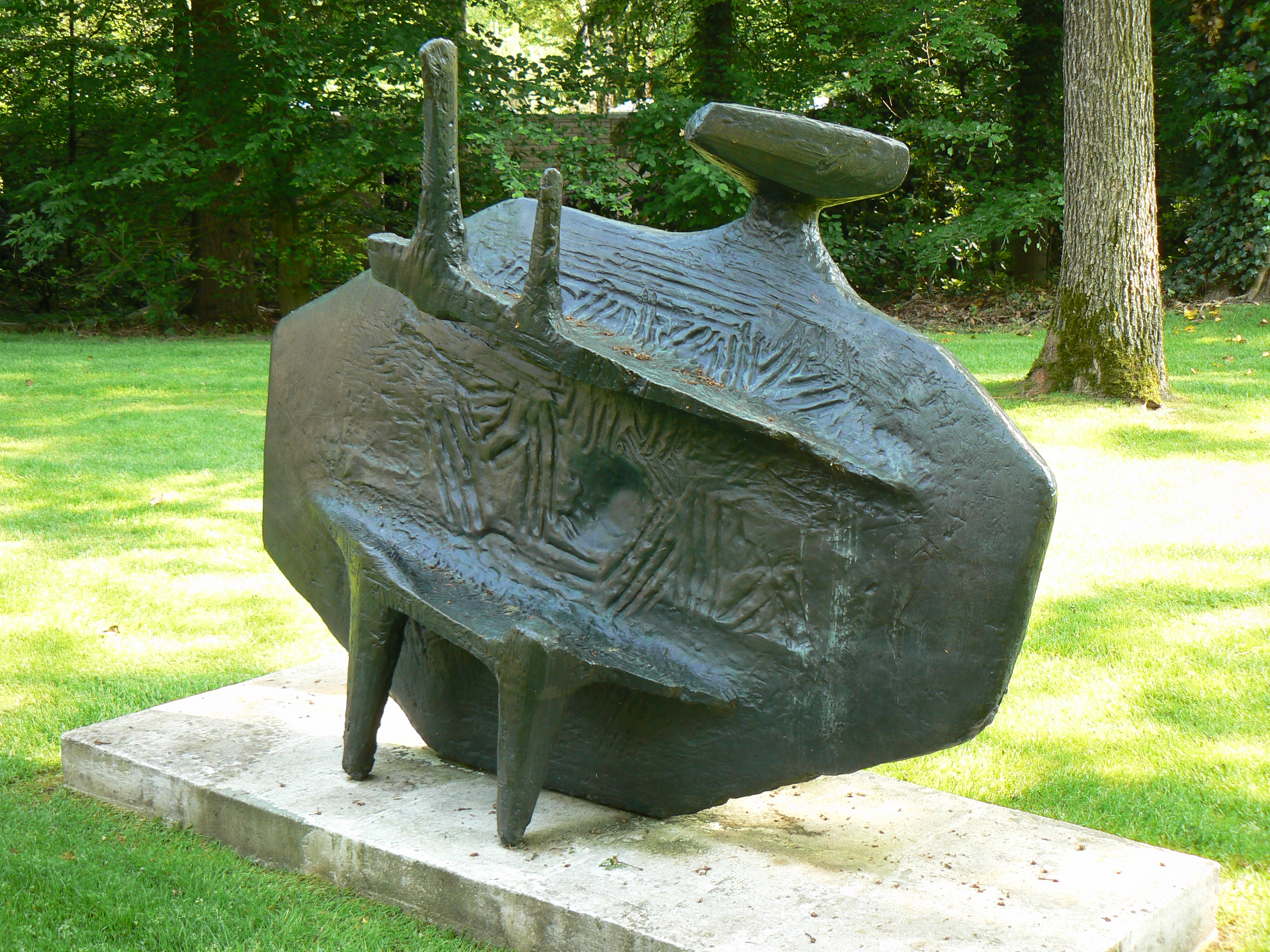 sculpture Monitor (1961) by Kenneth Armitage at KMM in Otterlo/The Netherlands